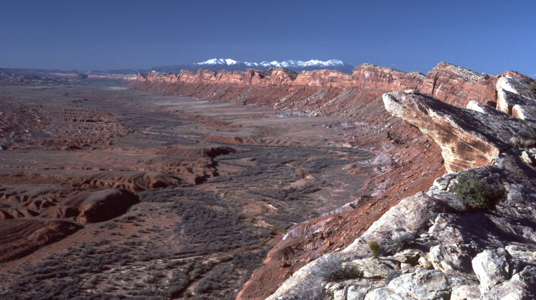 Comb Wash, Utah, looking north from near Hwy 163. The Abajo Mtns. are seen in the distance.